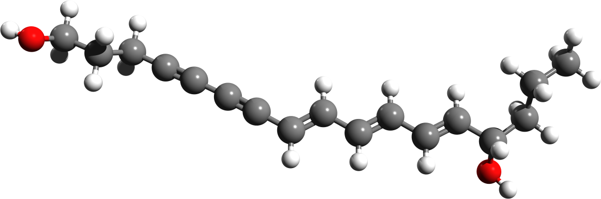 Cicutoxin structure